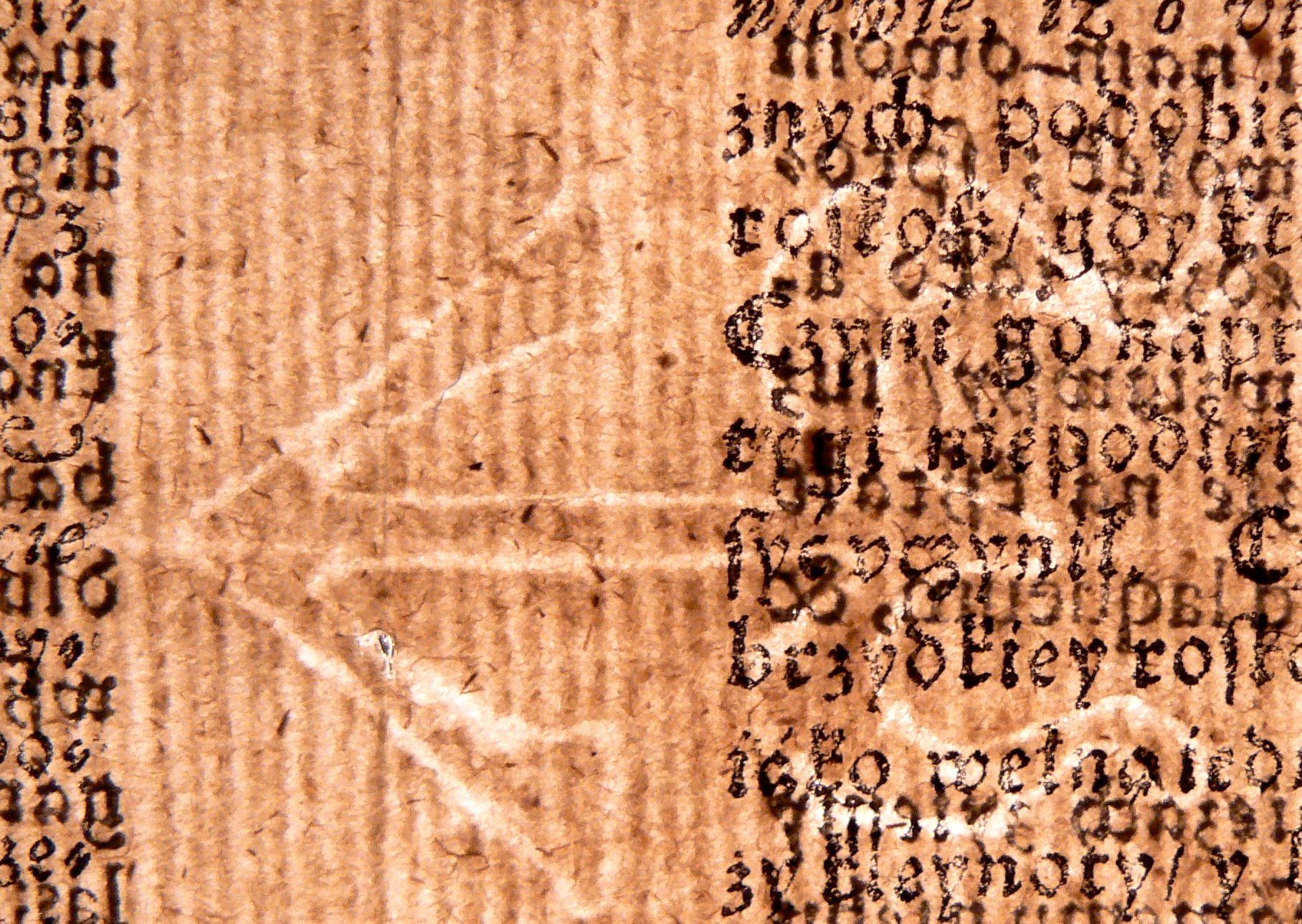 Watermark